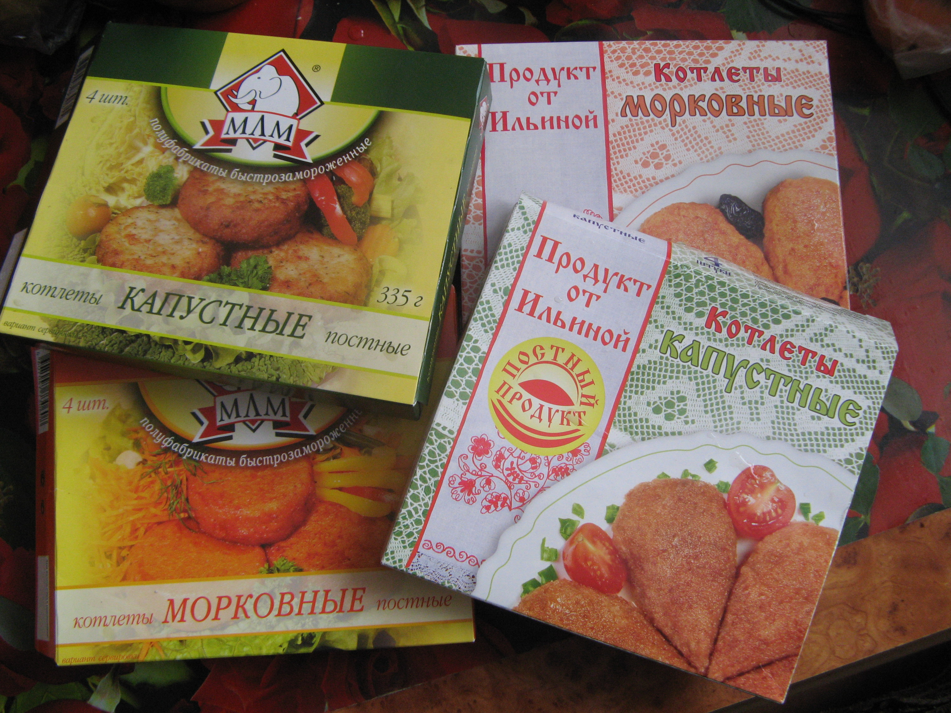 Vegan cutlets from cabbage and carrot produced by the russian food corporations for christians which forbids meat during christian lents and also for another persons interested.